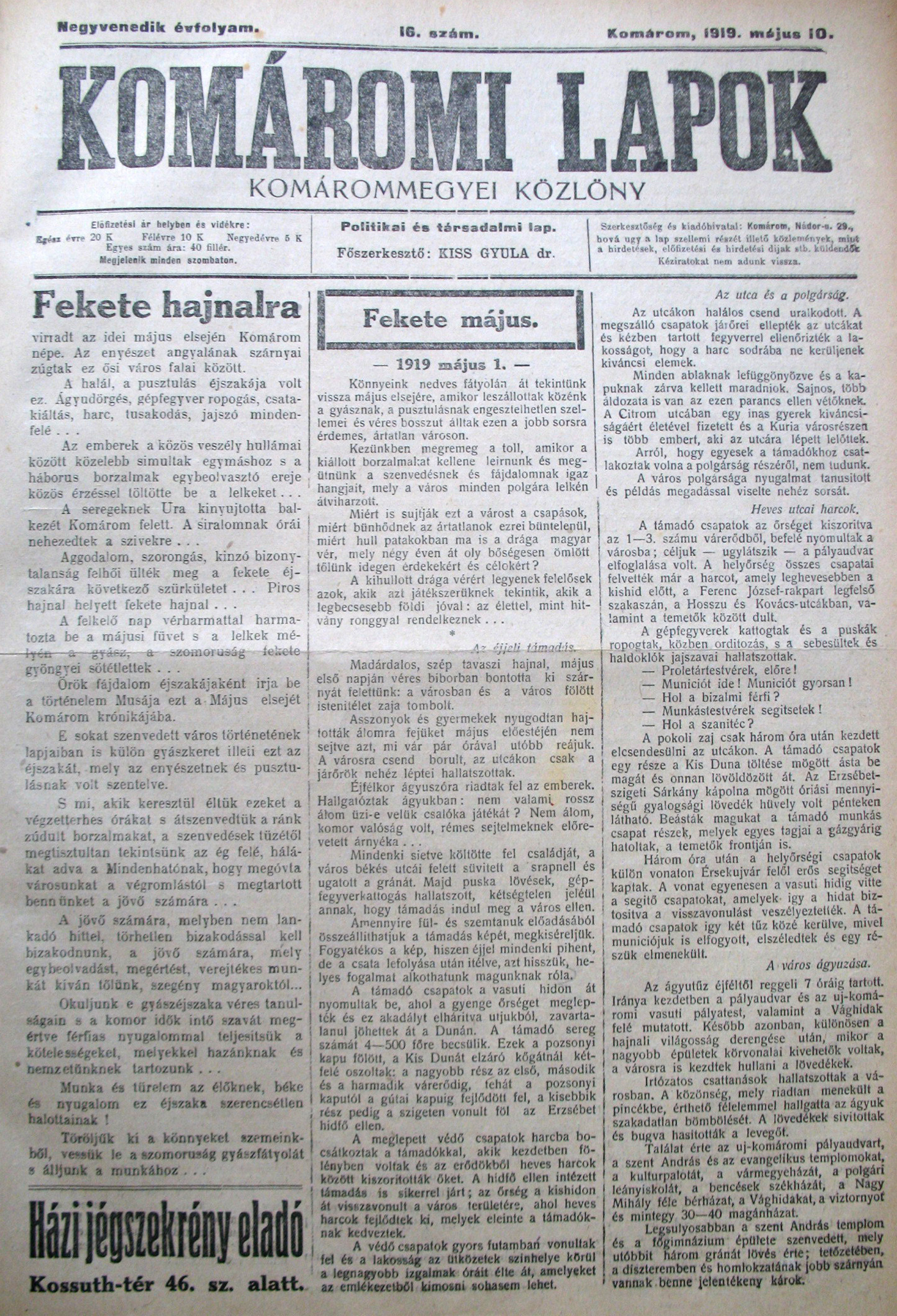 Newspaper Komáromi Lapok from 10. 05. 1919.